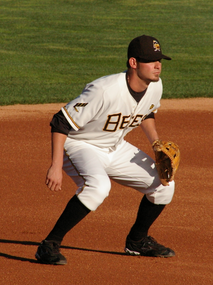 Brandon Wood